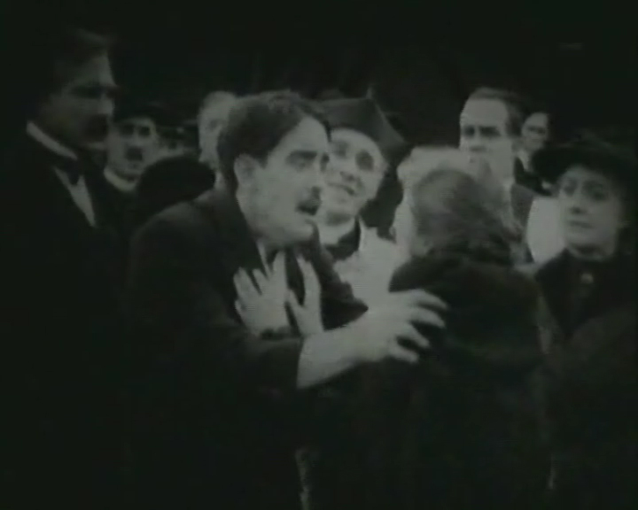 Scene from the movie Intolerance. 1916.